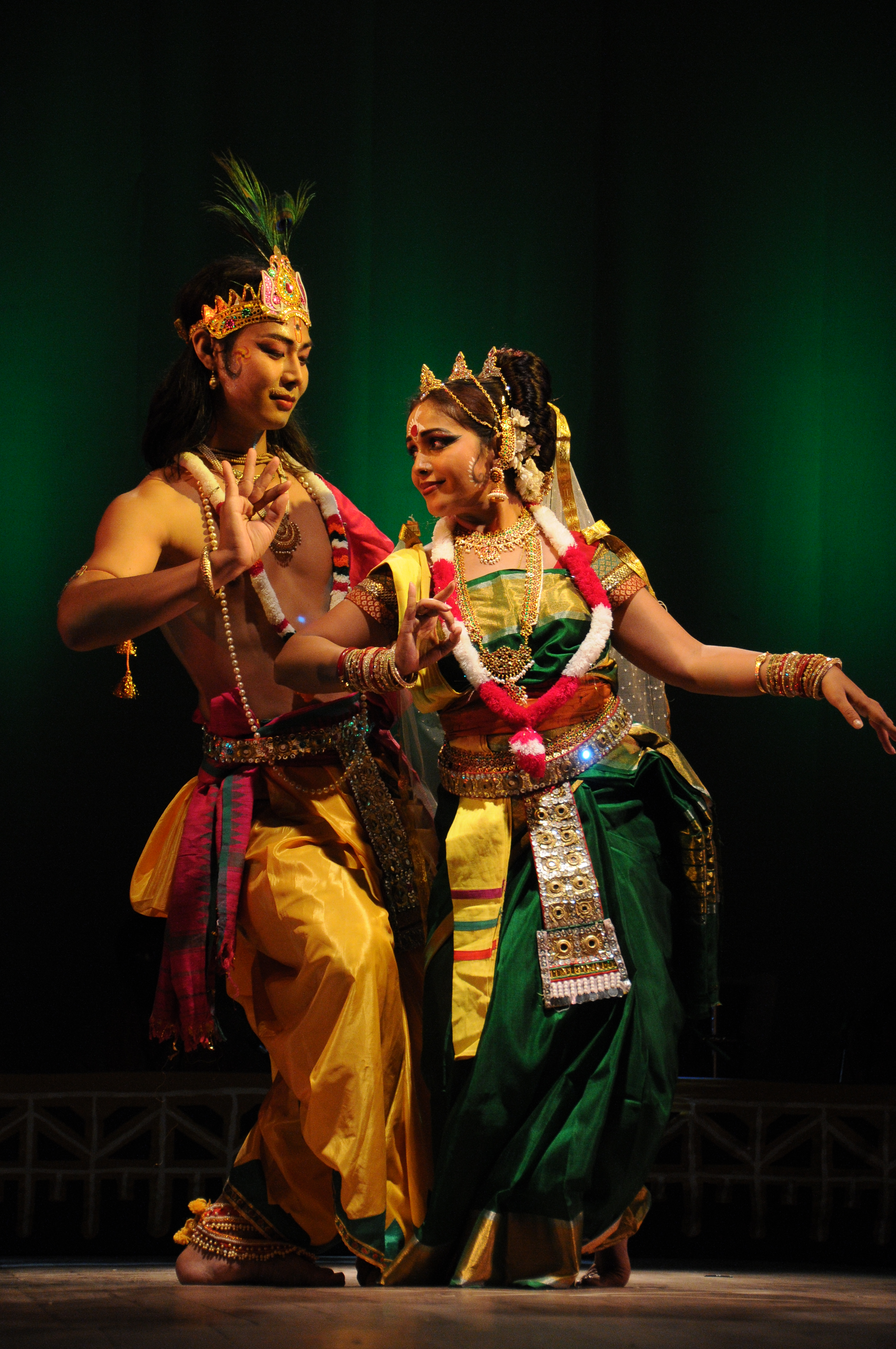 World Records India